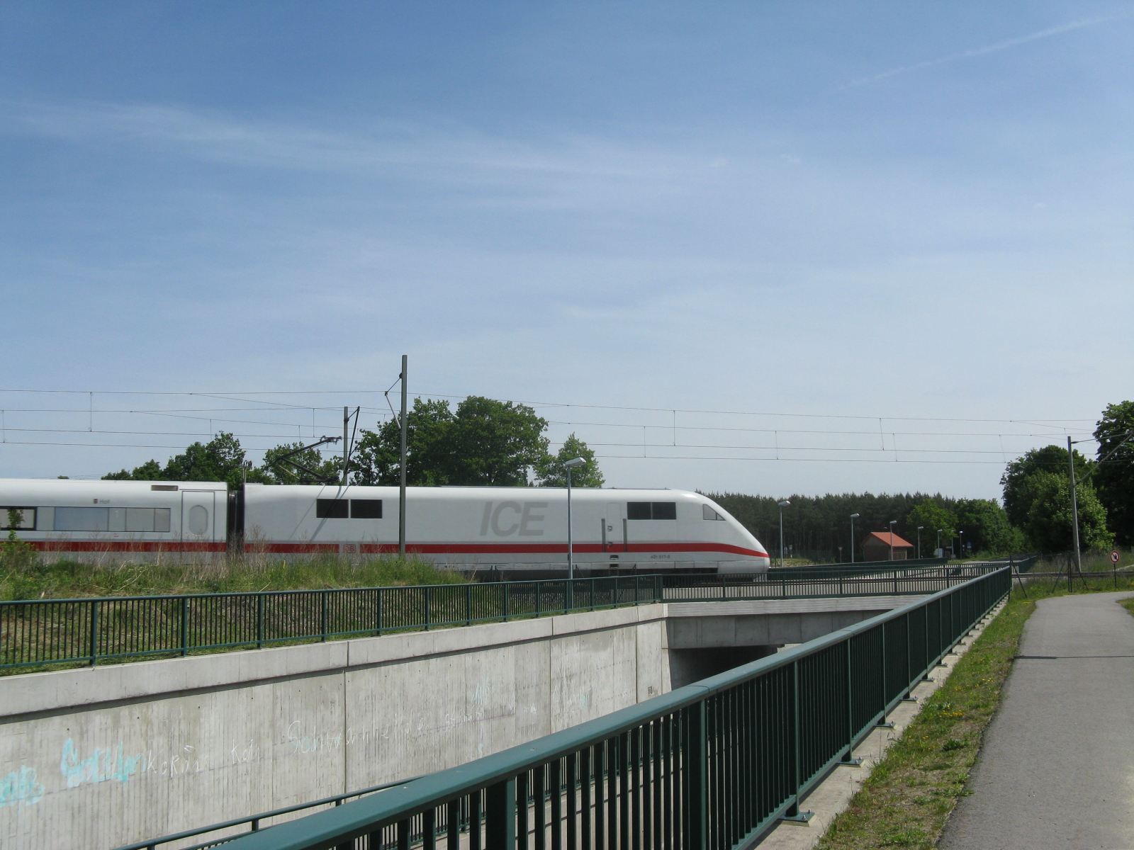 ICE passing train station in Schwanheide, district Ludwigslust, Mecklenburg-Vorpommern, Germany